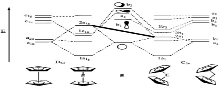 rotació anells